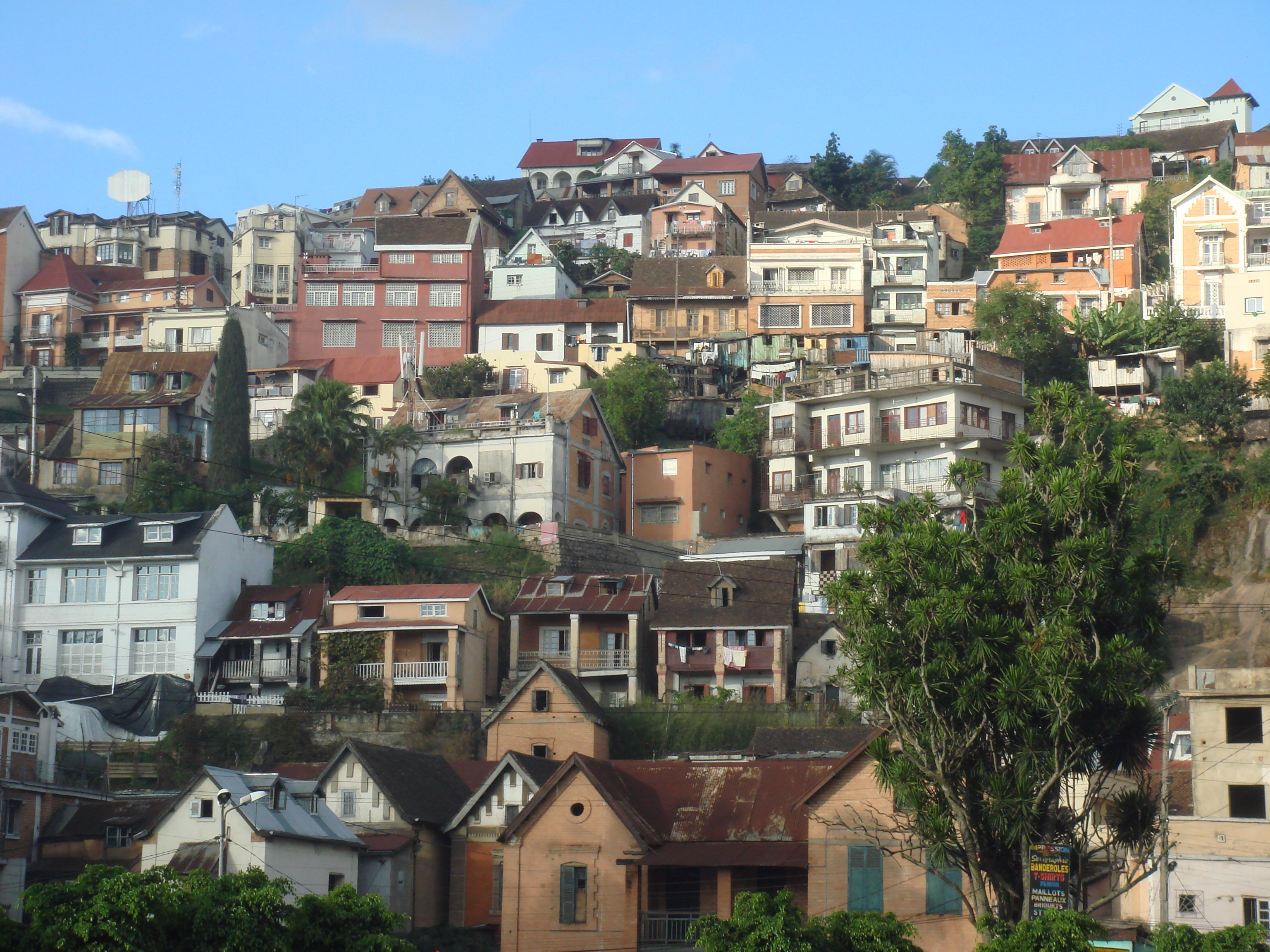 Antananarivo, Madagascar